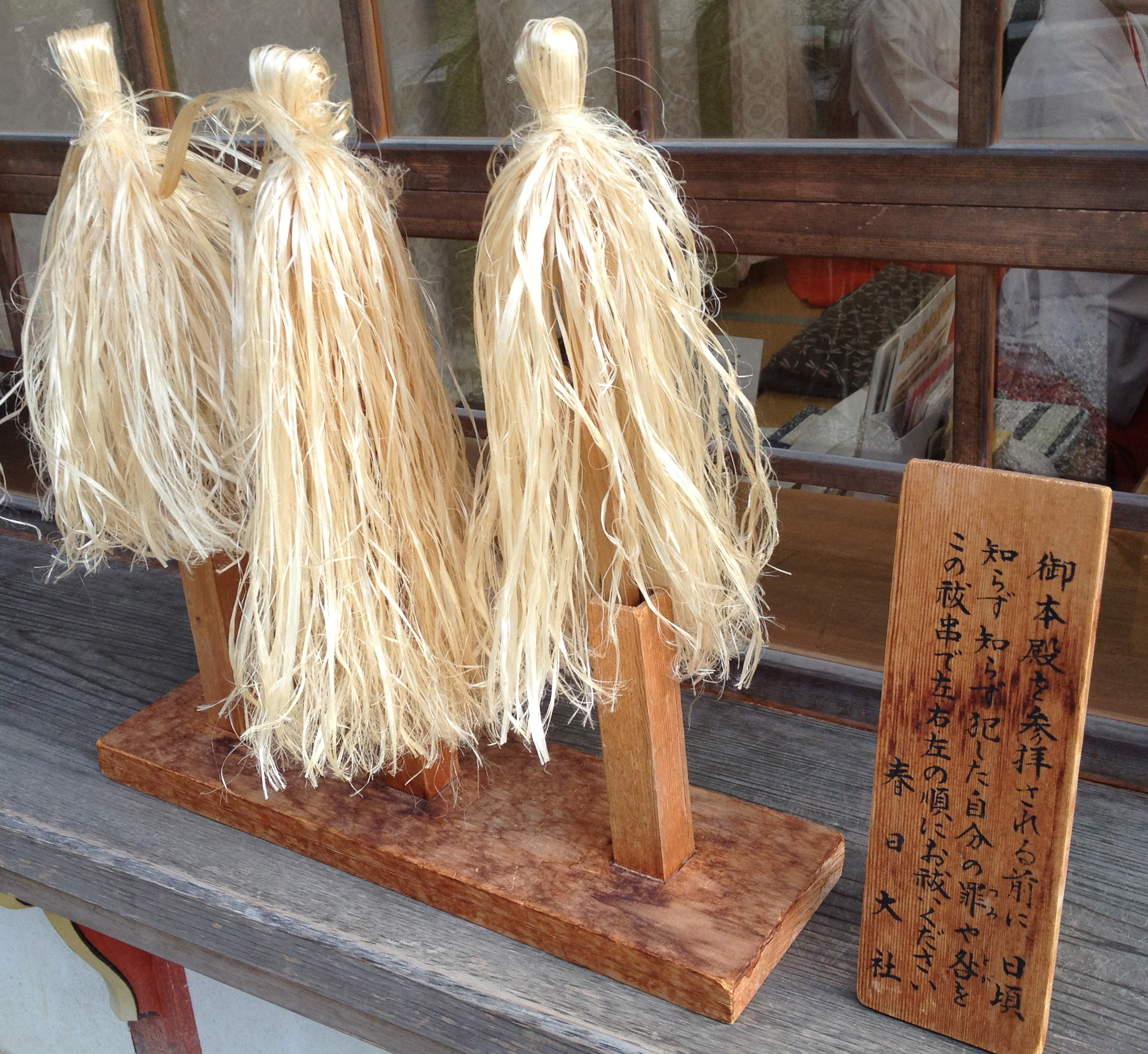 Oonusa which has been placed before the main shrine of Kasuga Taisha.